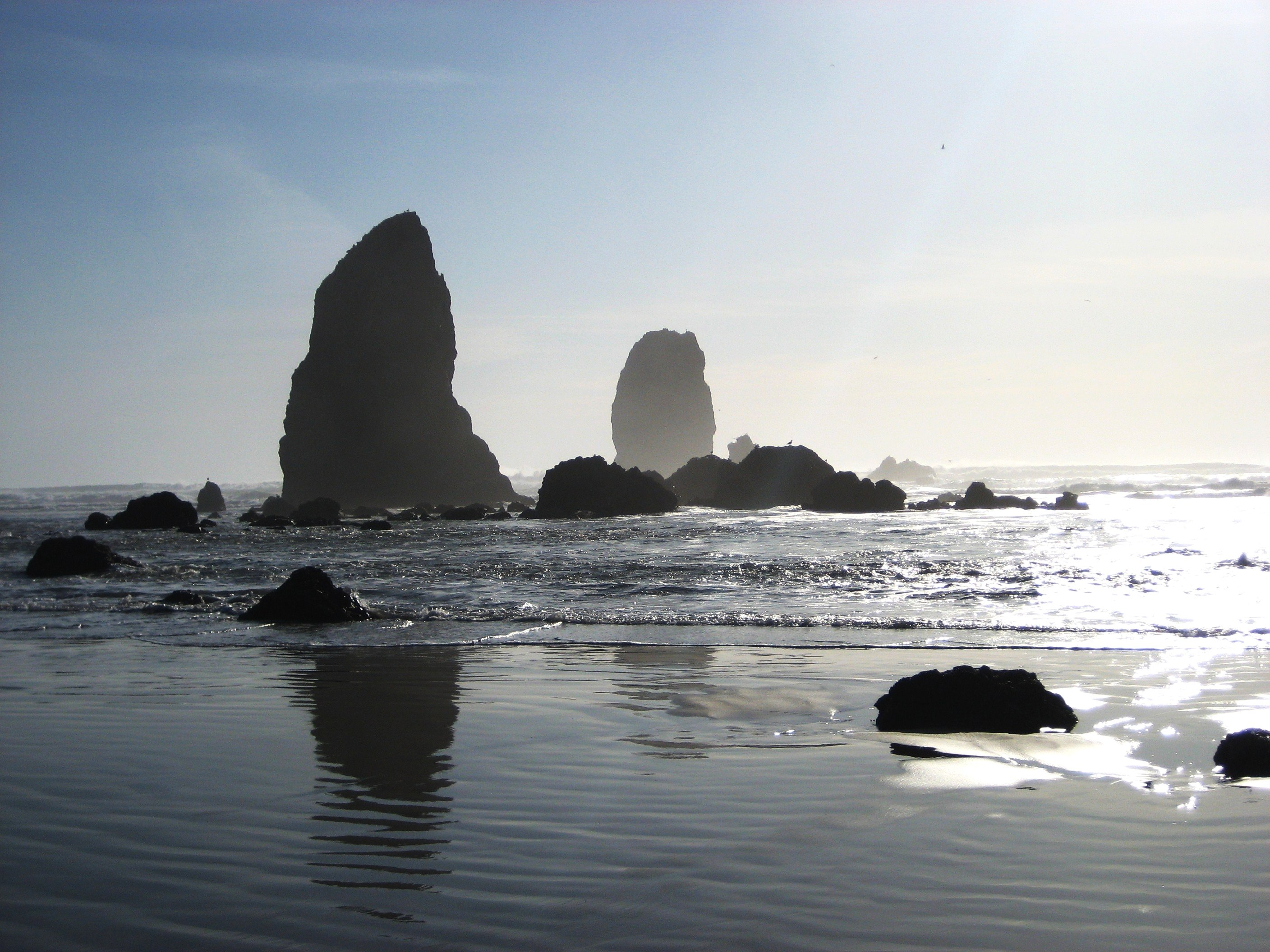 Sea stacks, surf, and sun. Ripples and reflections in the late afternoon. The remnants of a continent march into the sea. Oregon Coast.